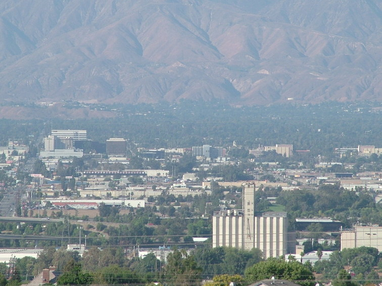 This is the San Bernardino Skyline taken from Grand Terrace, California.